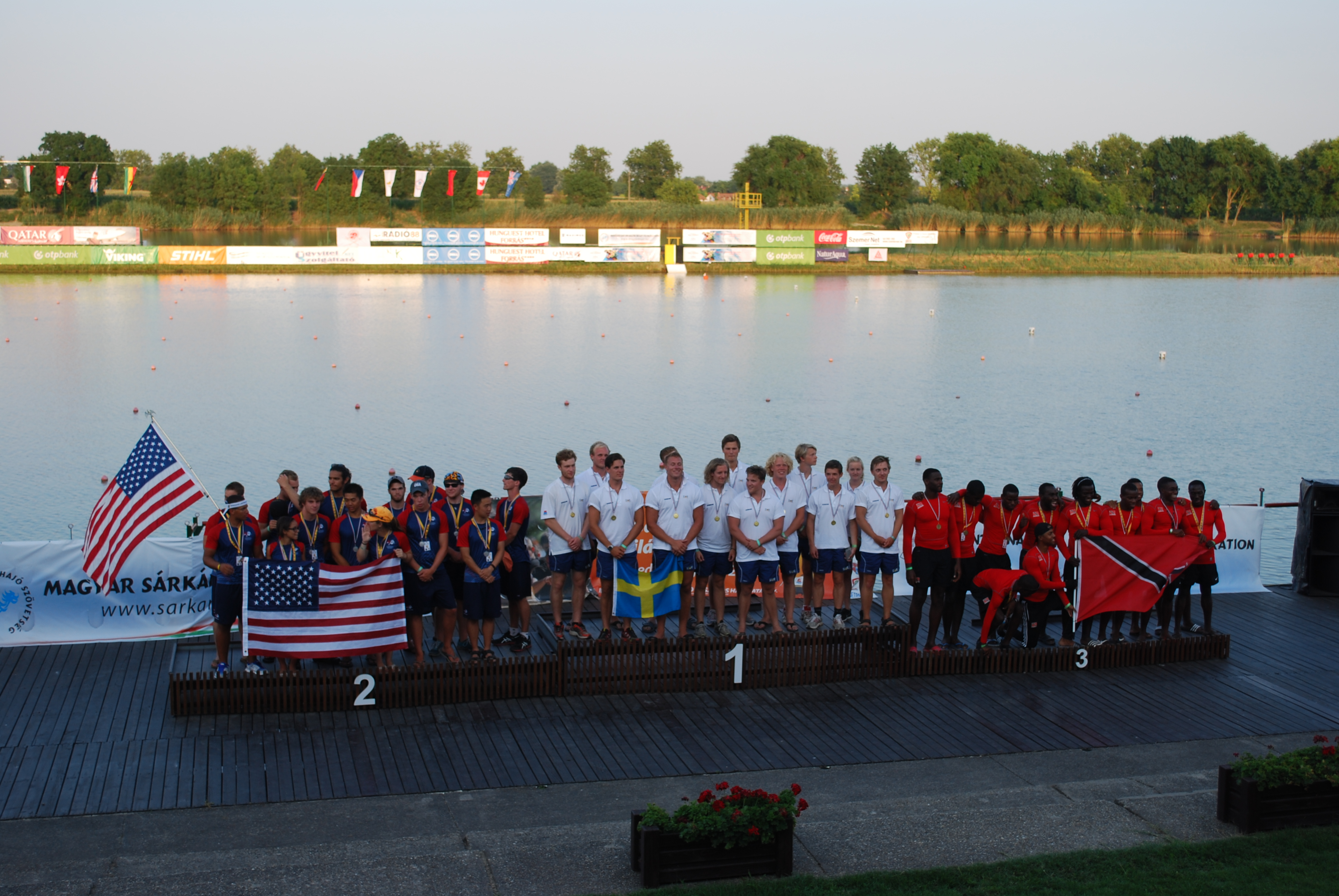 IDBF World Dragon Boat Racing Championships 2013 in Szeged, Hungary. Small boat U24 men 200 meter medal ceremony. Sweden won gold, USA won silver and Trinidad & Tobago won bronze.